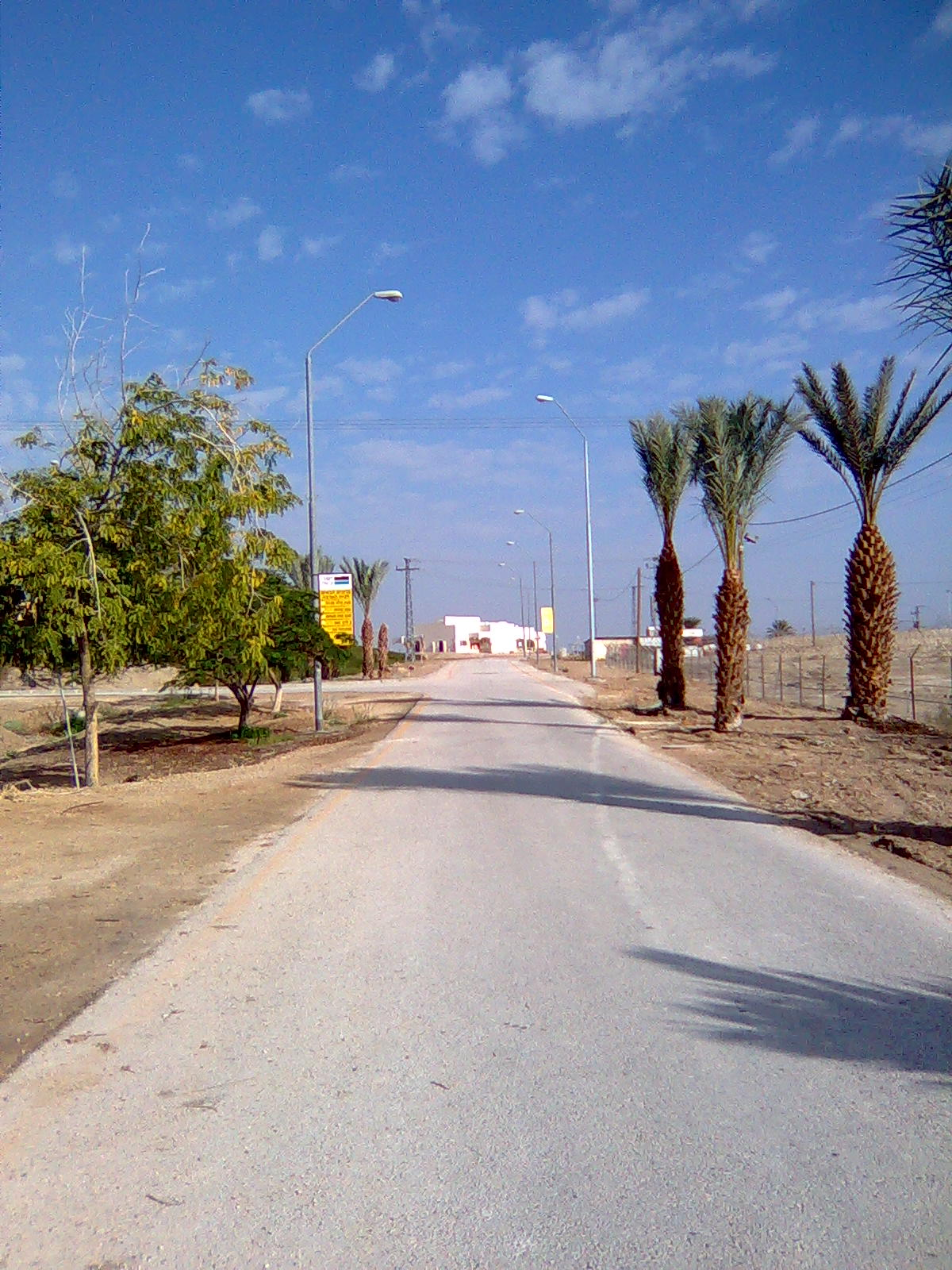 Main road of Bet Ha'Arava